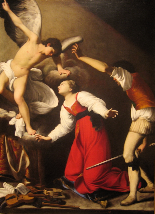 Wikipedia Loves Art at the Los Angeles County Museum of Art This photo of item # AC1996.37.1 at the Los Angeles County Museum of Art was contributed under the team name "artifacts" as part of the Wikipedia Loves Art project in February 2009. Los Angeles County Museum of Art The original photograph on Flickr was taken by Beesnest McClain—please add a comment to the original Flickr page whenever a use has been made on Wikipedia or another project. Project galleries on Flickr: this institution, this team